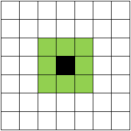 The Moore neighborhood of range 1